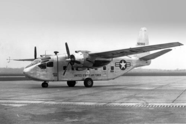 Chase YC-122C Avitruc prototype. The Chase YC-122 Avitruc was a powered version of the CG-18 glider. This YC-122C (s/n 49-2882) was one of only 9 built (s/n 49-2879 to 49-2887).